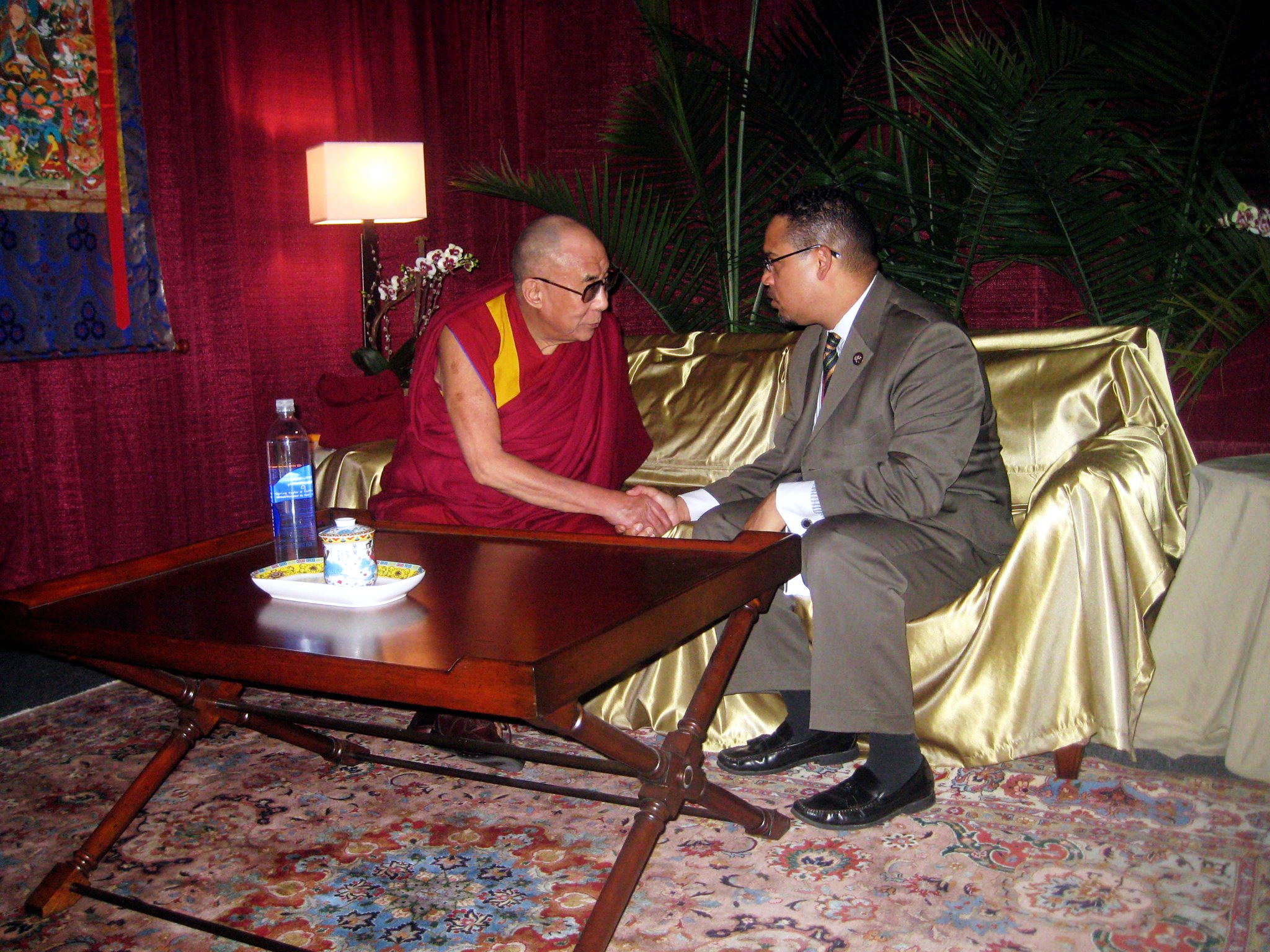 Tenzin Gyatso, 14th Dalai Lama with Keith Ellison